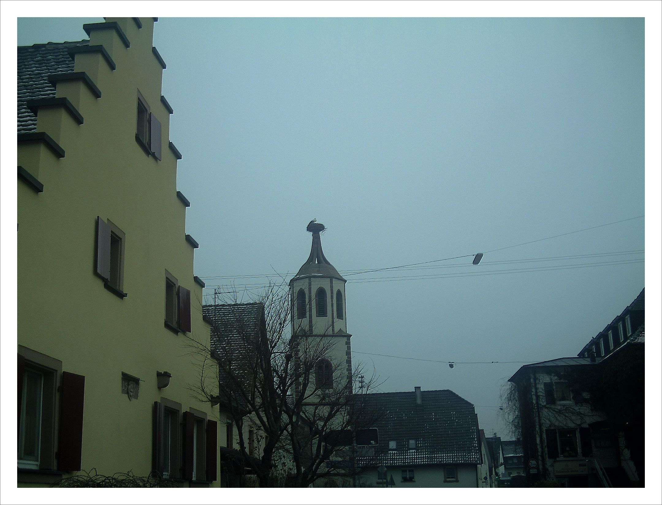 26.02.13 ICE Blizzard South Germany - powerful Big Cigogne blanc break through Sky, occupie - Grand Africa-Spain Trail - Magic Rhine Valley Photography